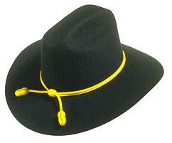 The Stetson Cavalry Hat Source: Fort Hood (Army): Information presented on this site is considered public information and may be distributed or copied. Use of appropriate byline/photo/image credits is requested.